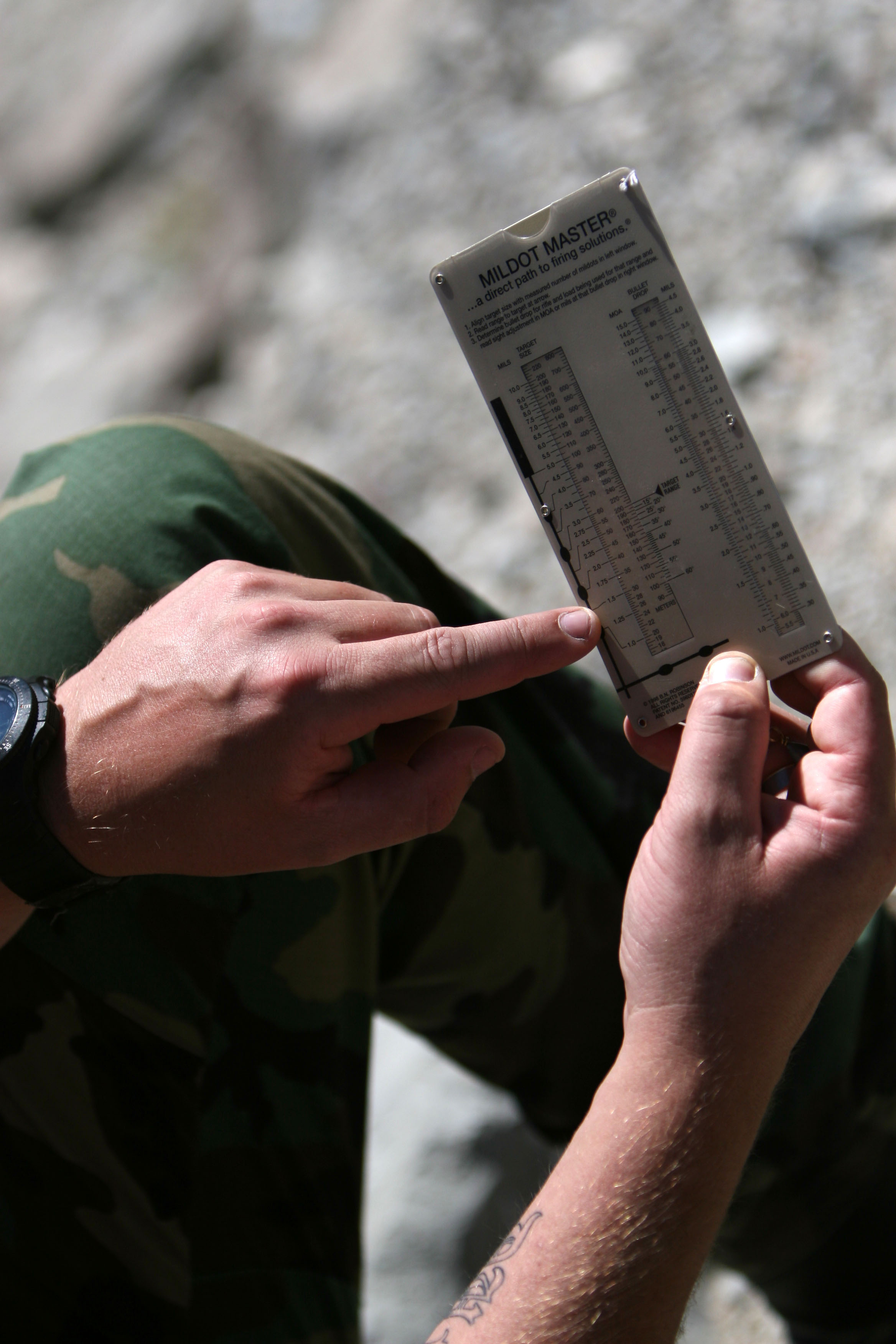 Cpl. Barry Vuurst, a sniper instructor with Sniper Team, 24th Co., 2nd Battalion, Royal Dutch Marines, shows his students how to properly read a Mildot Master analog calculator during a live-fire exercise atop Rocket Mountain here Tuesday. A Mildot Master is designed to the reduce the time it takes to determine the distance to target, and other factors snipers must consider before taking a shot, dramatically .